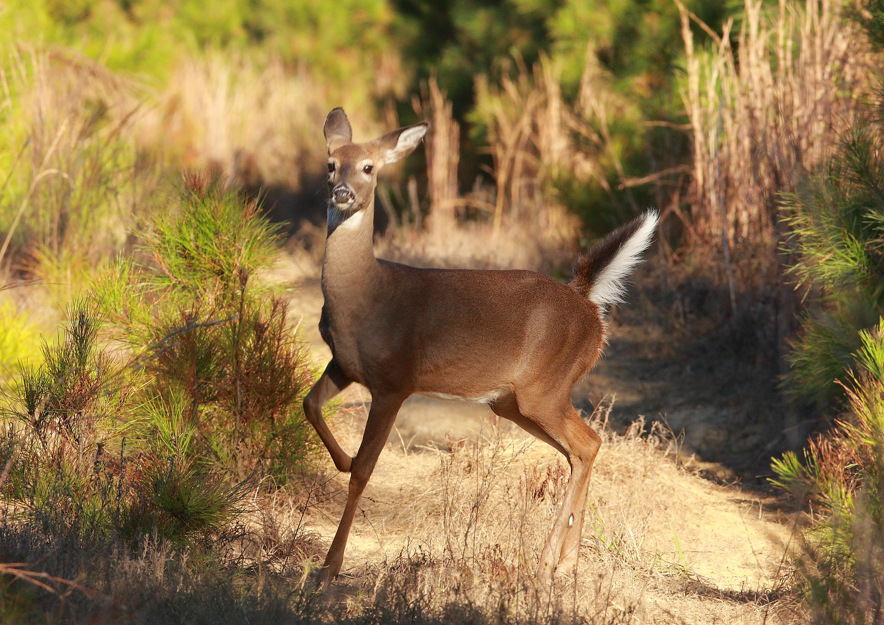 White-tailed deer (Odocoileus virginianus)